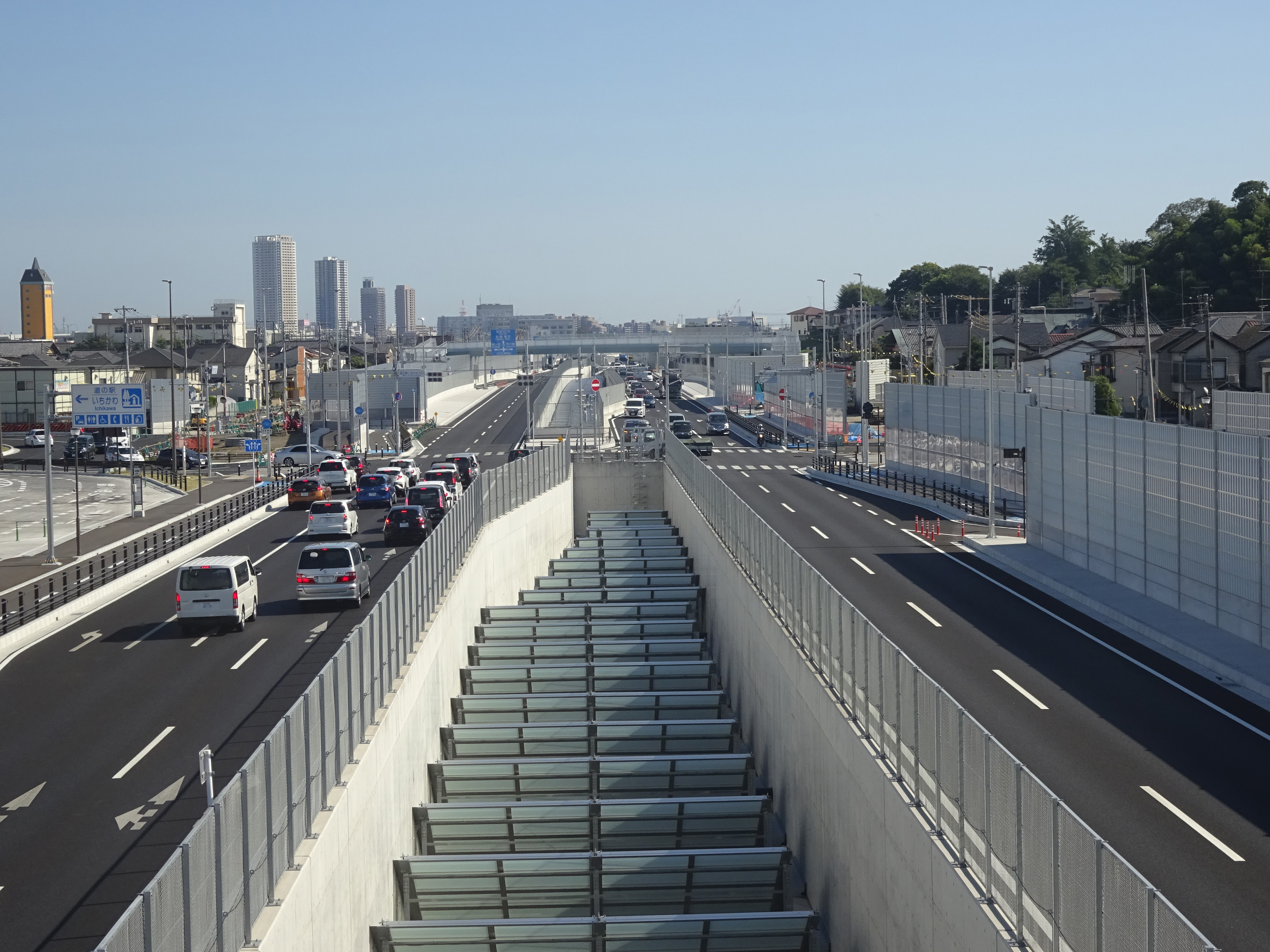 Japan National Route 298(in front of Michinoeki Ichikawa)